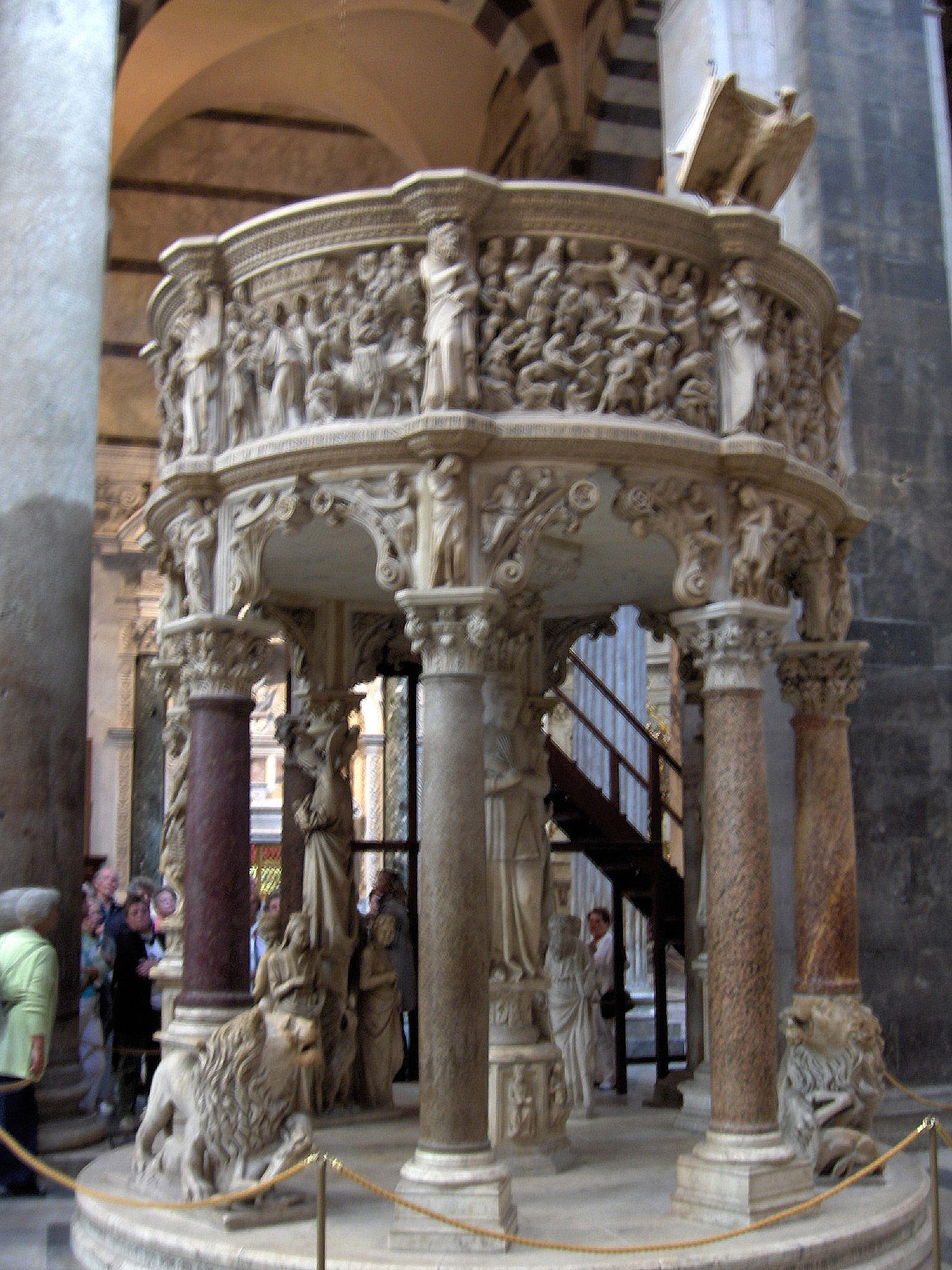 Pulpit by Giovanni Pisano in the cathedral; Pisa, Italy Own photo